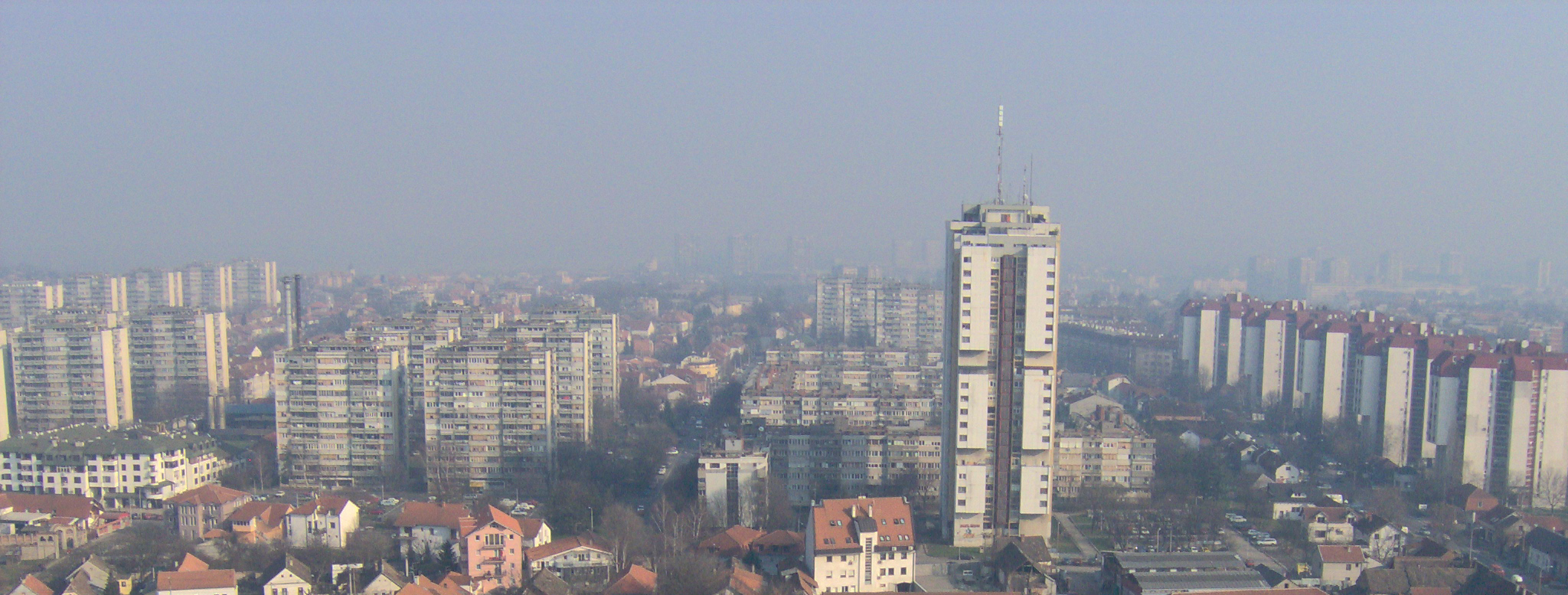 Novi Beograd in Zemun, Serbia